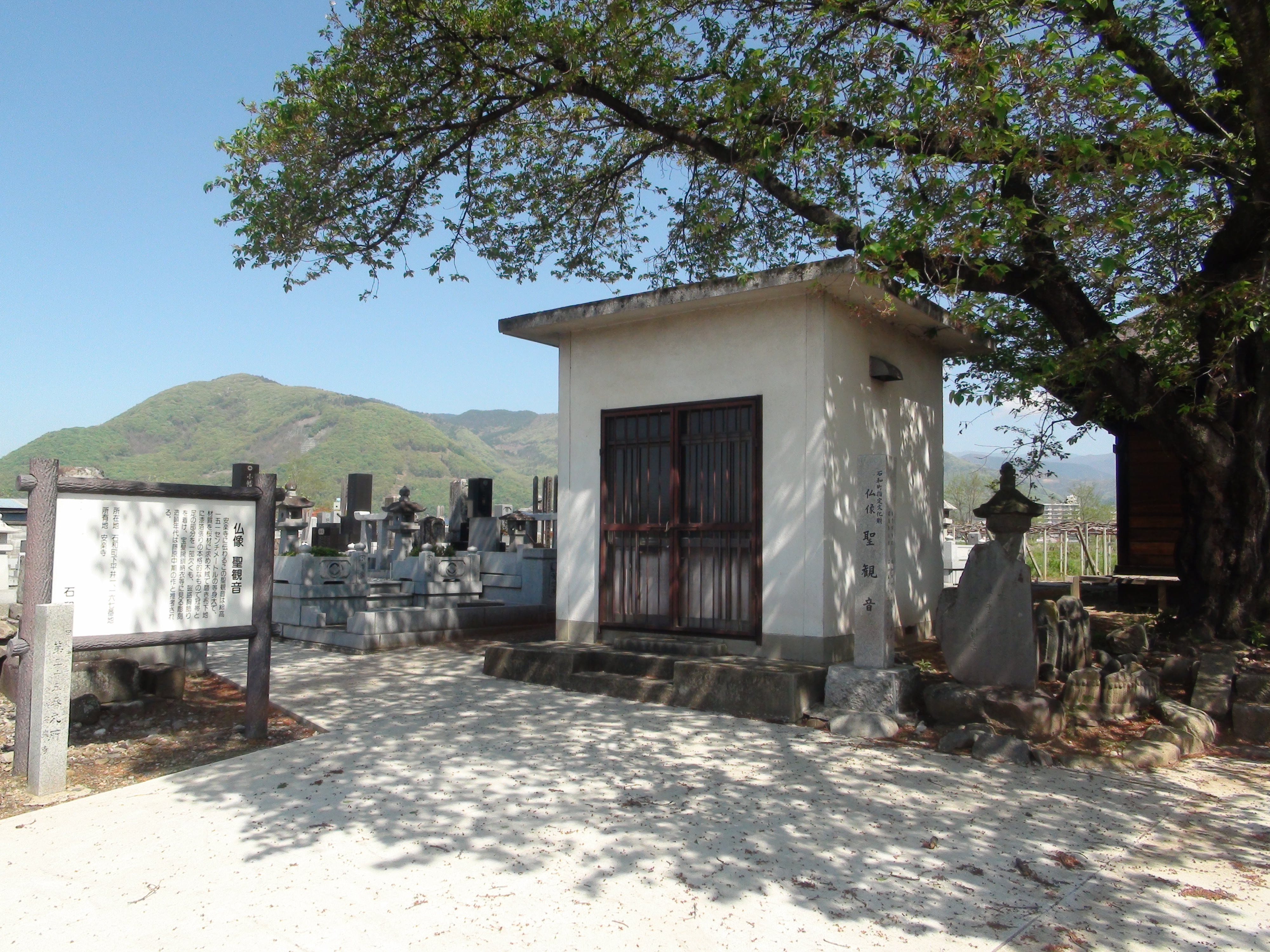 Guanyin Bodhisattva depository of Anrakuji temple fuefuki-city